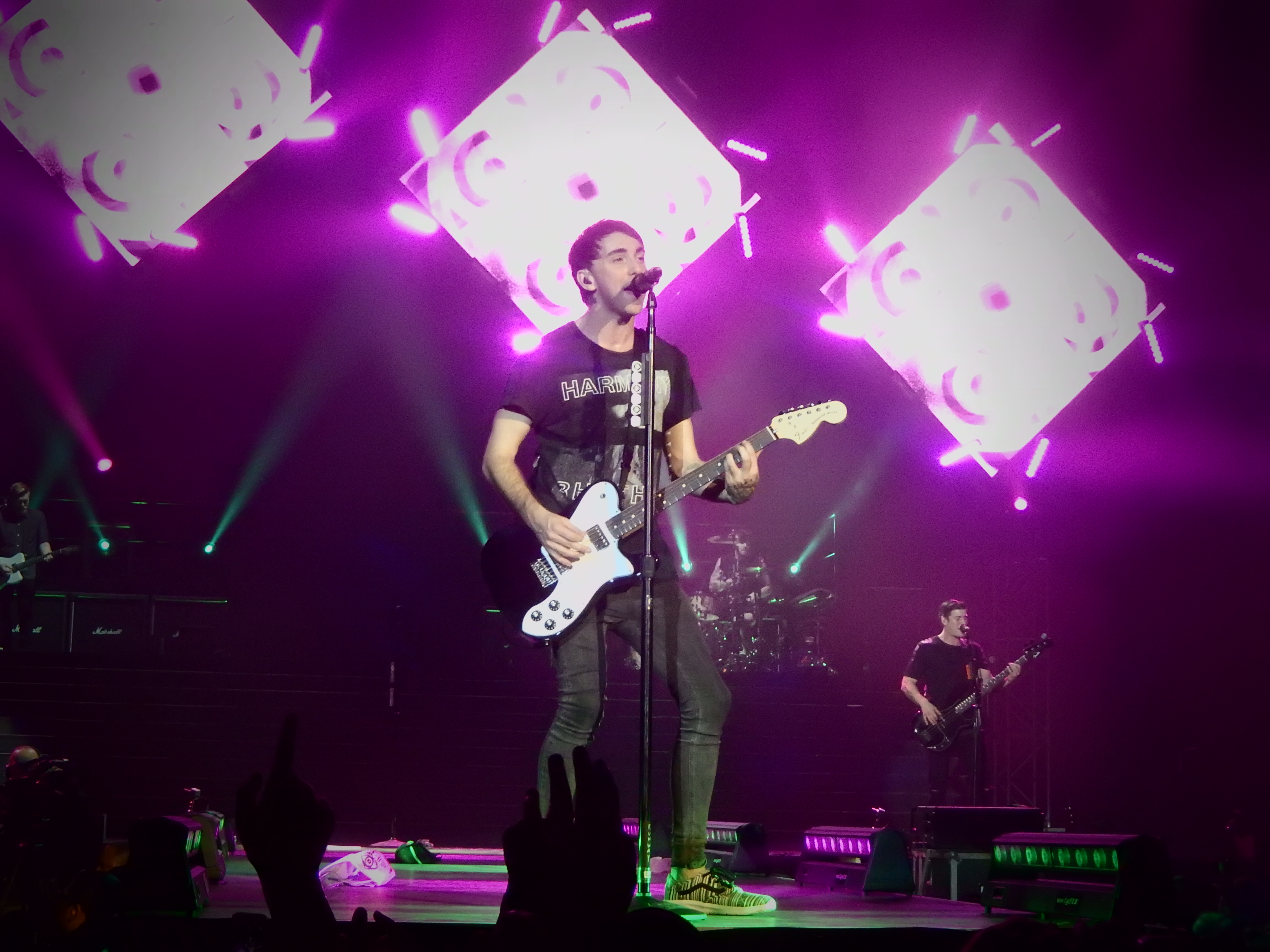 All Time Low, O2 Arena, London